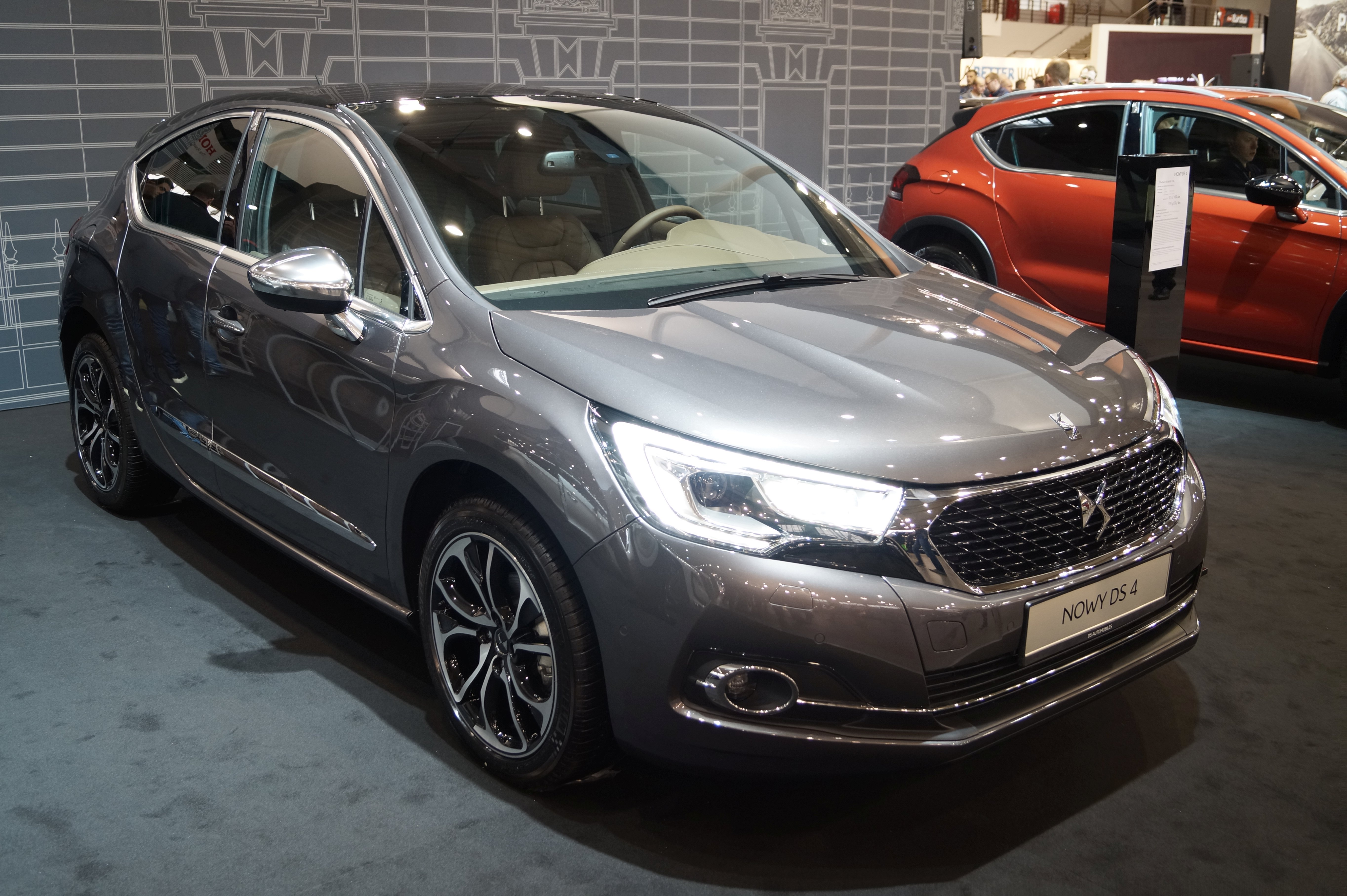 The making of this document was supported by Wikimedia Polska Association, within Wikigrant no. WG 2016-10. Citroën DS4 na Motor Show Poznań 2016